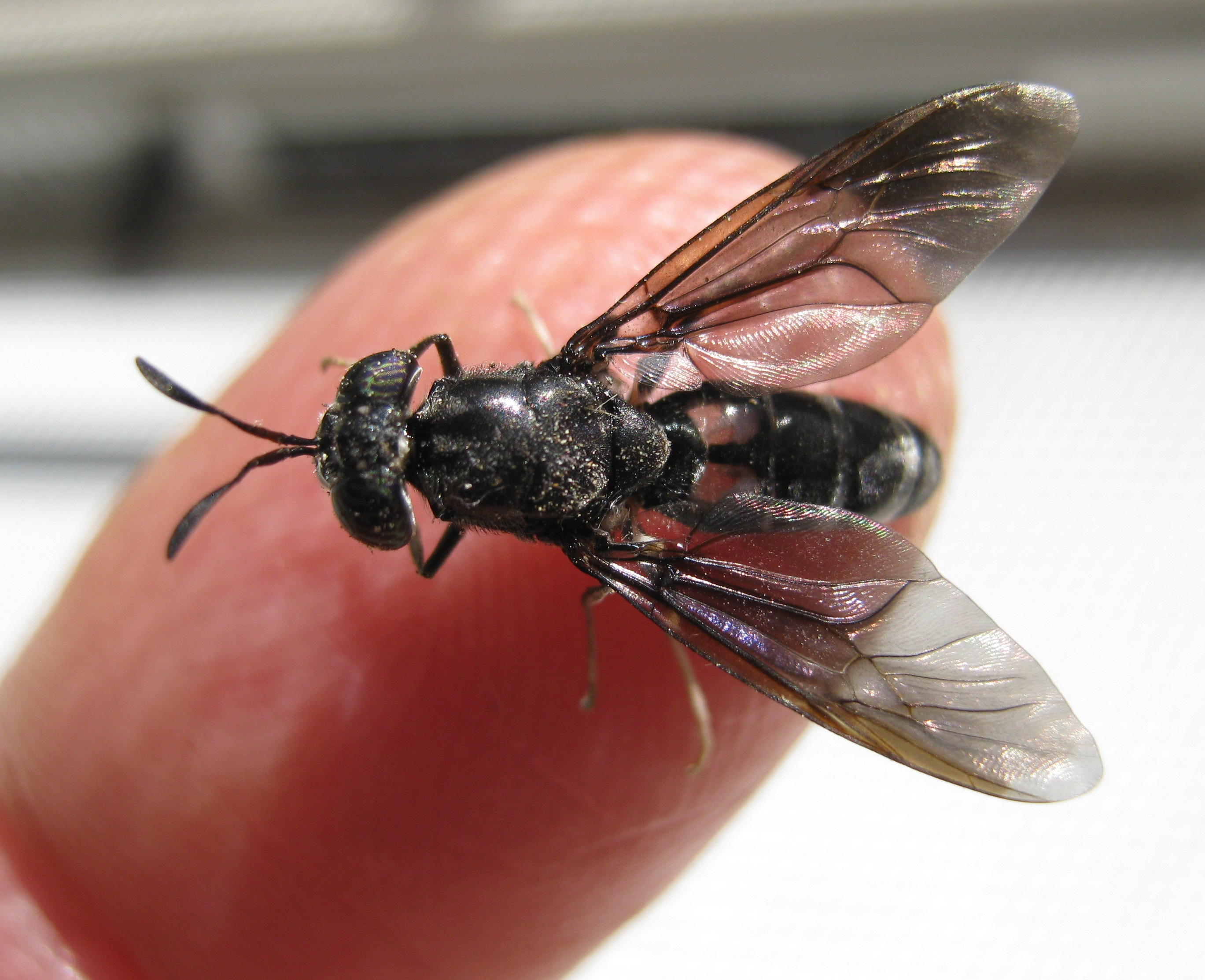 Black soldier fly, Hermetia illucens. Briar Bush Nature Center, Montgomery County, Pennsylvania, USA.